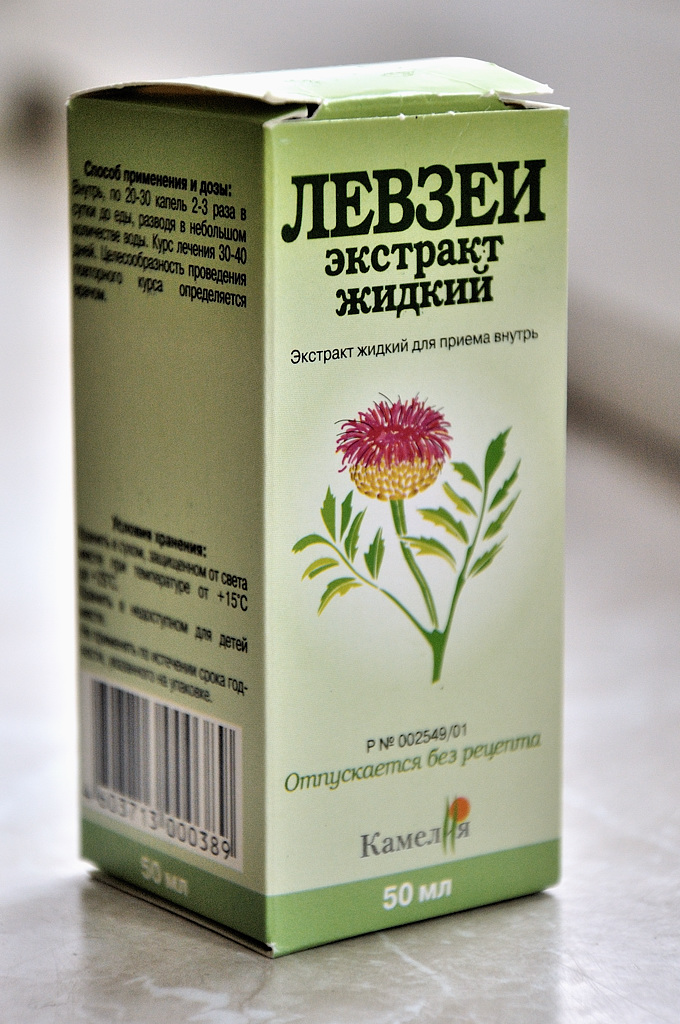 Rhaponticum carthamoides fluid extract